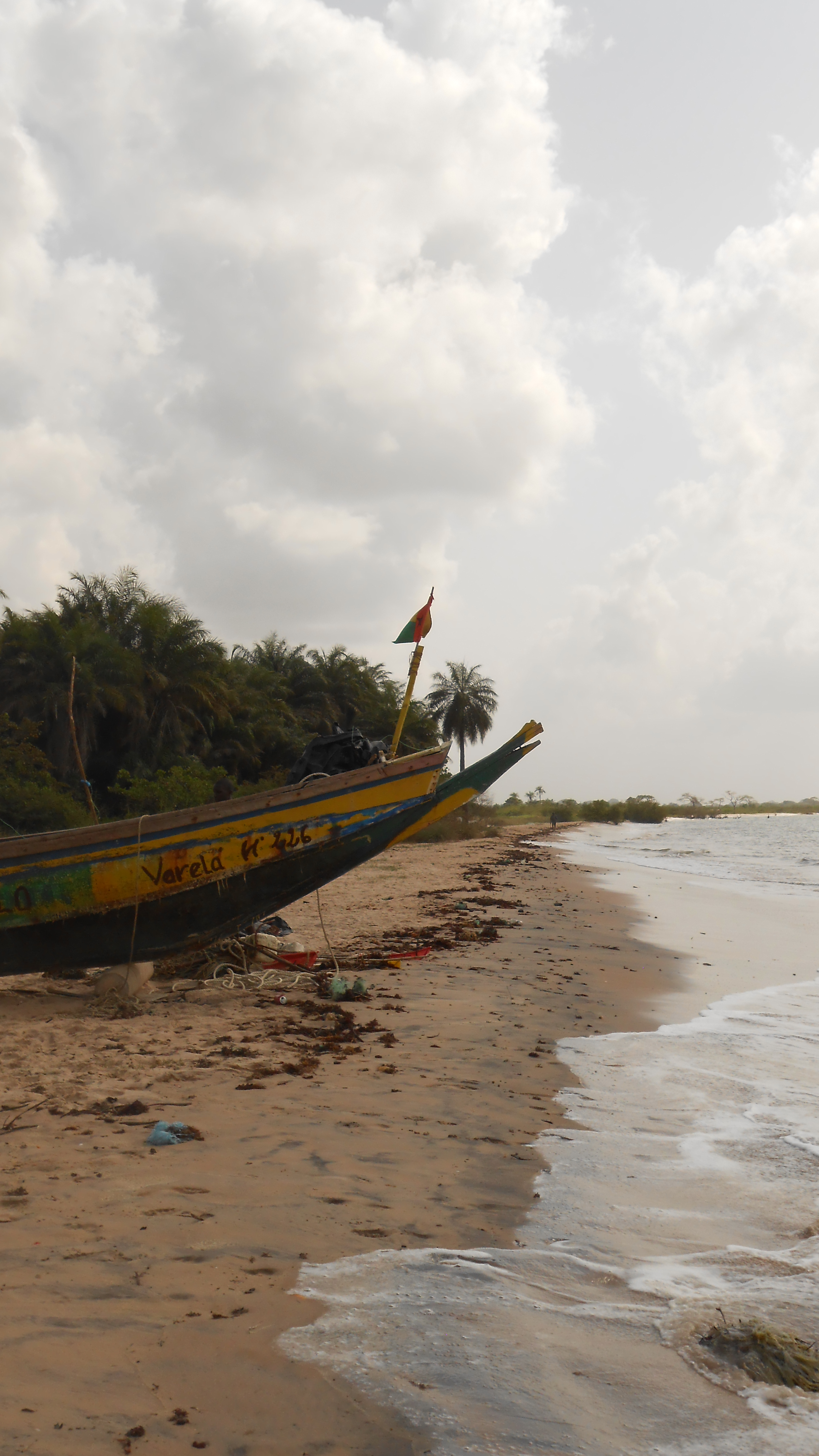 Fisher boat at the beach of Varela (Praia de Varela) in Guinea-Bissau.